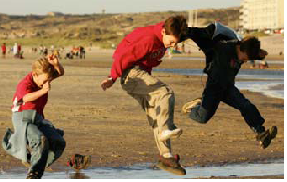 enfants